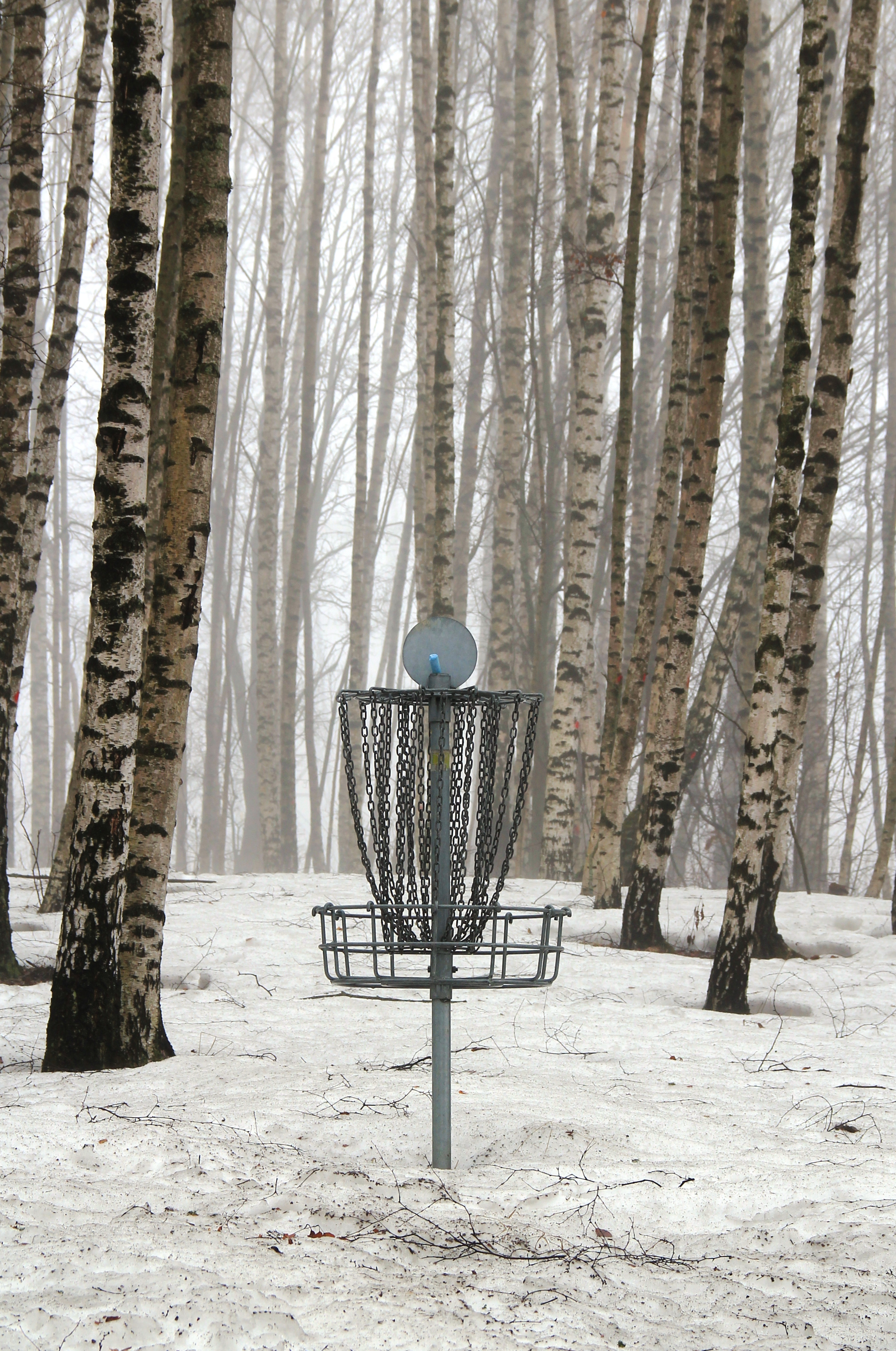 Disc golf basket from Alnaparken disc golf course / frisbeegolfbane.